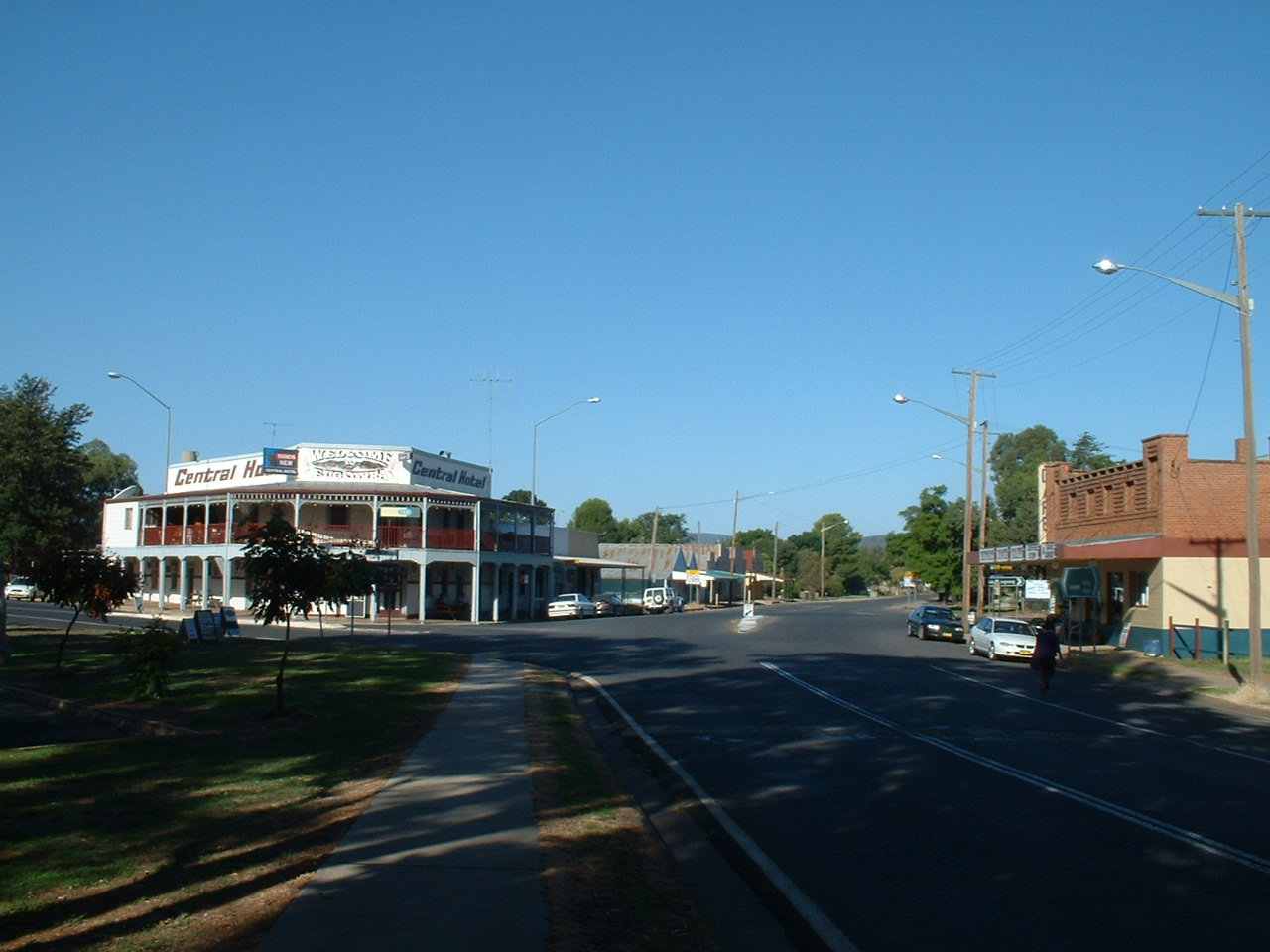 The main street of Eugowra, New South Wales, from the bridge, looking east.